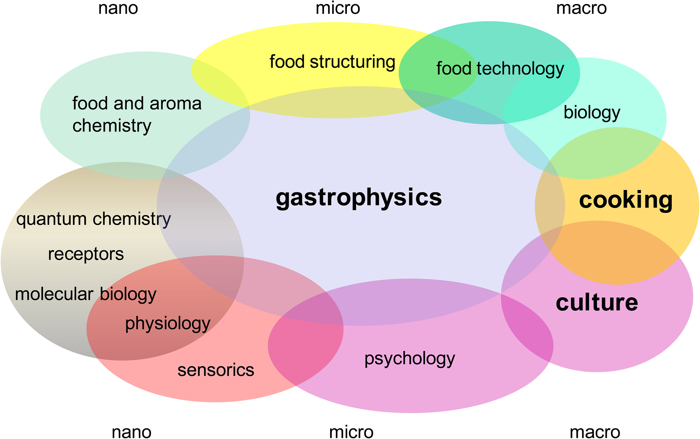 Gastrophysics and its overlap with different scientific disciplines as motivated by its multi-scale character.